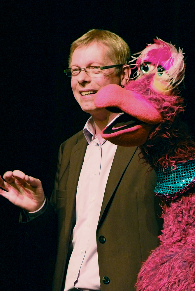 German ventriloquist Jörg Jará with puppet Olga